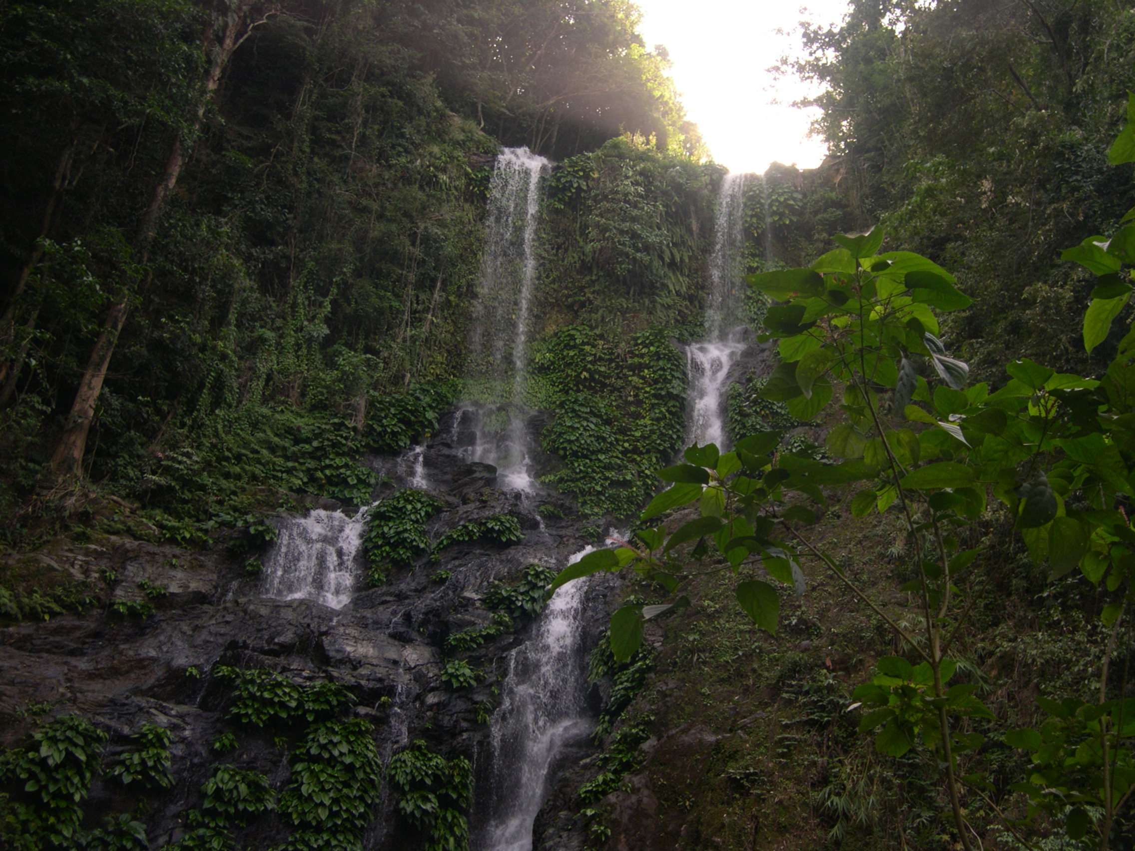 Tamaraw Falls, near Puerto Galera, Philippines